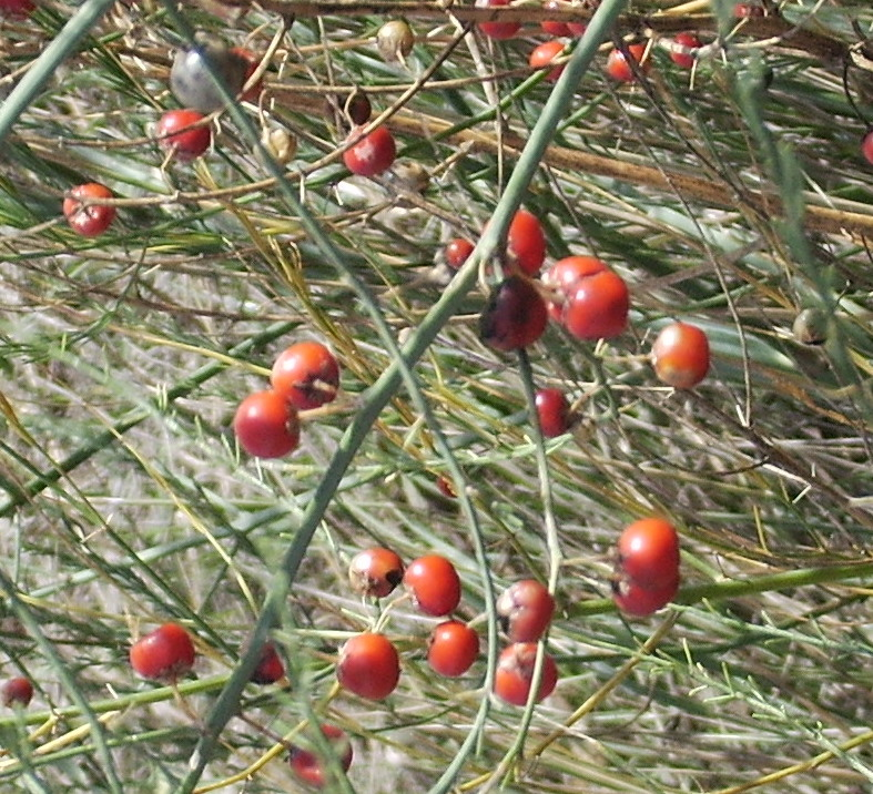 Asparagus acutifolius (cultivated) fruits, Castelltallat, Catalonia